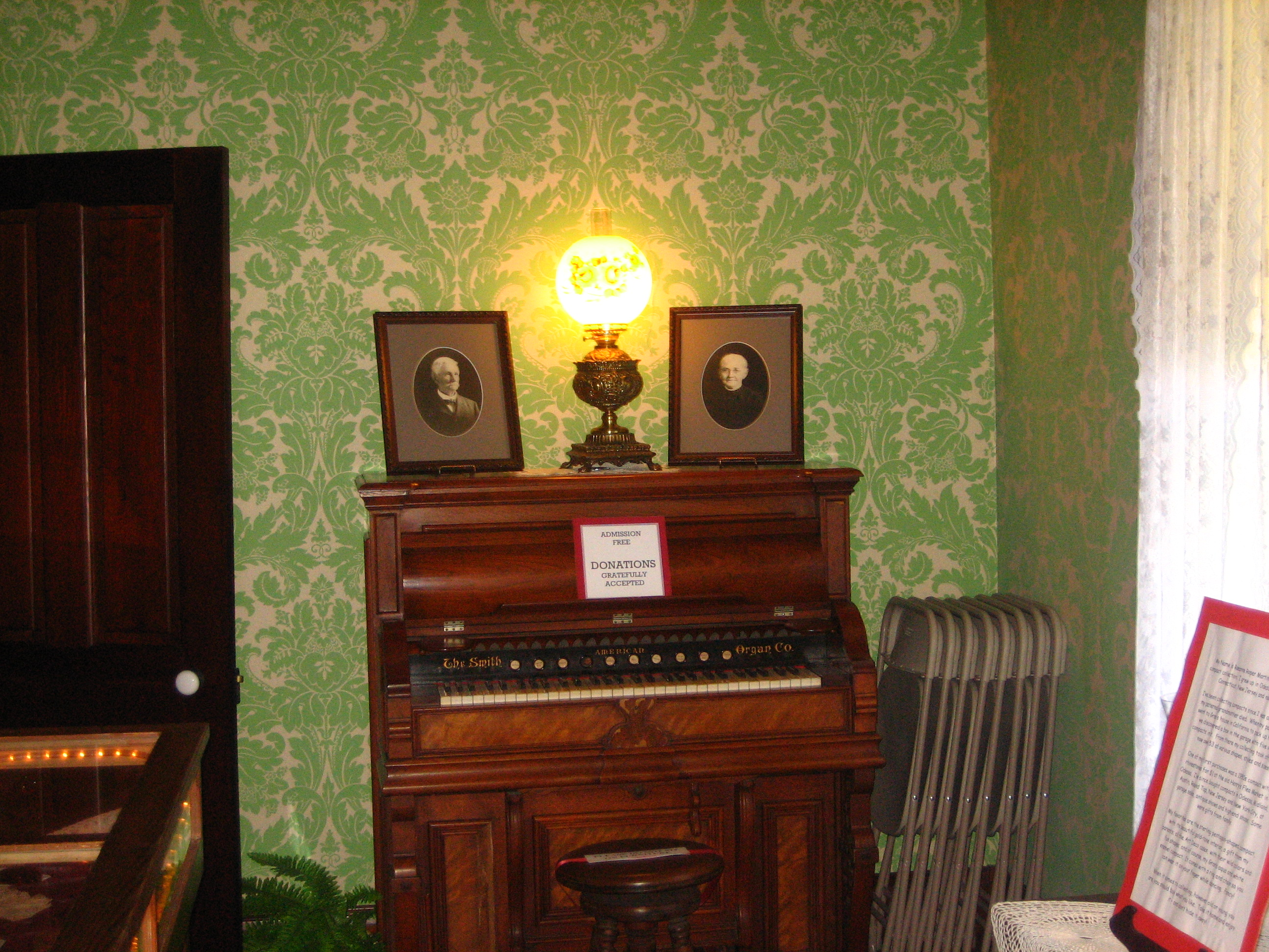 Organ at White-Pool House, Odessa, TX Picture